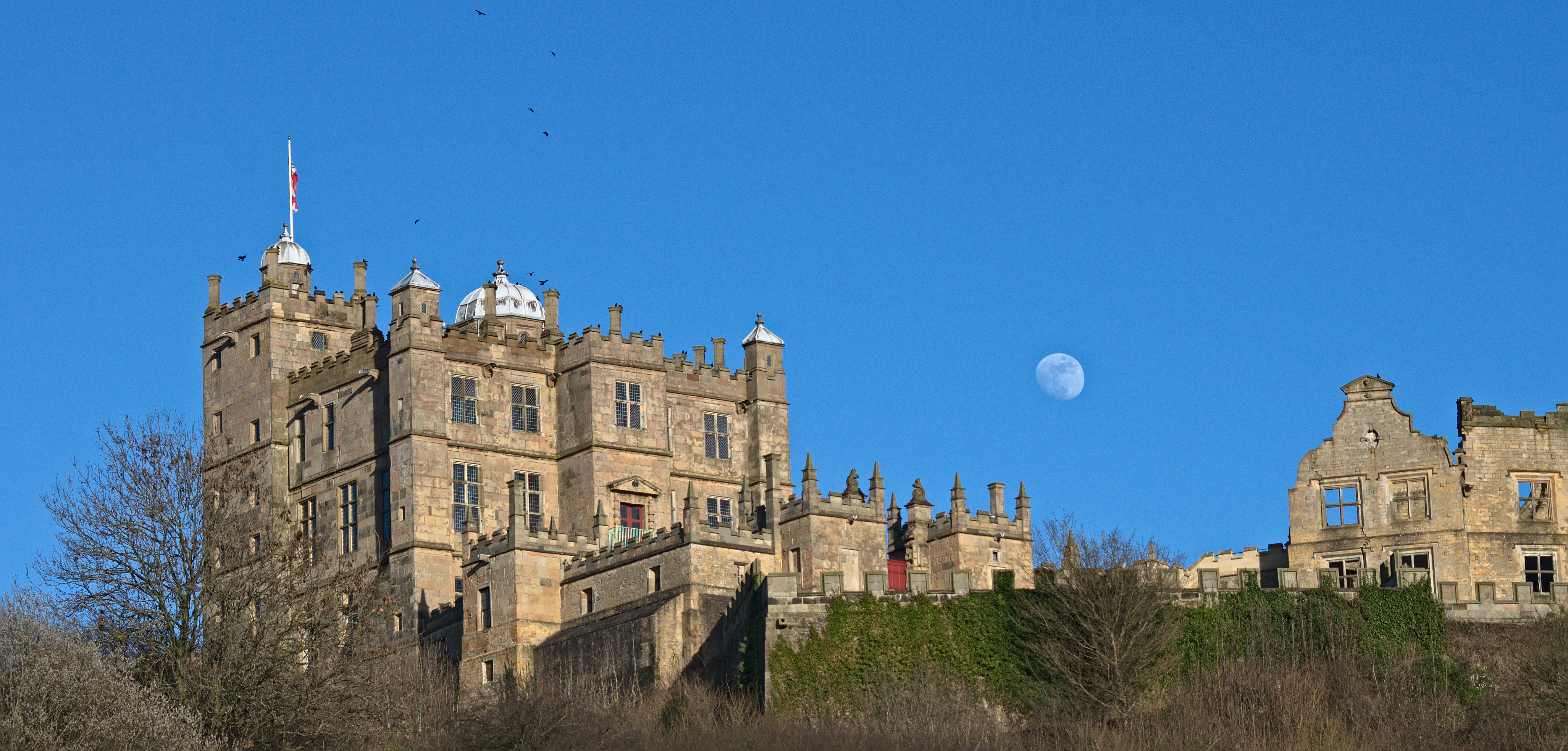 Bolsover Castle: eleventh century motte and bailey castle, twelfth century tower keep castle and seventeenth century country hou Wikidata has entry Q17674918 with data related to this item.